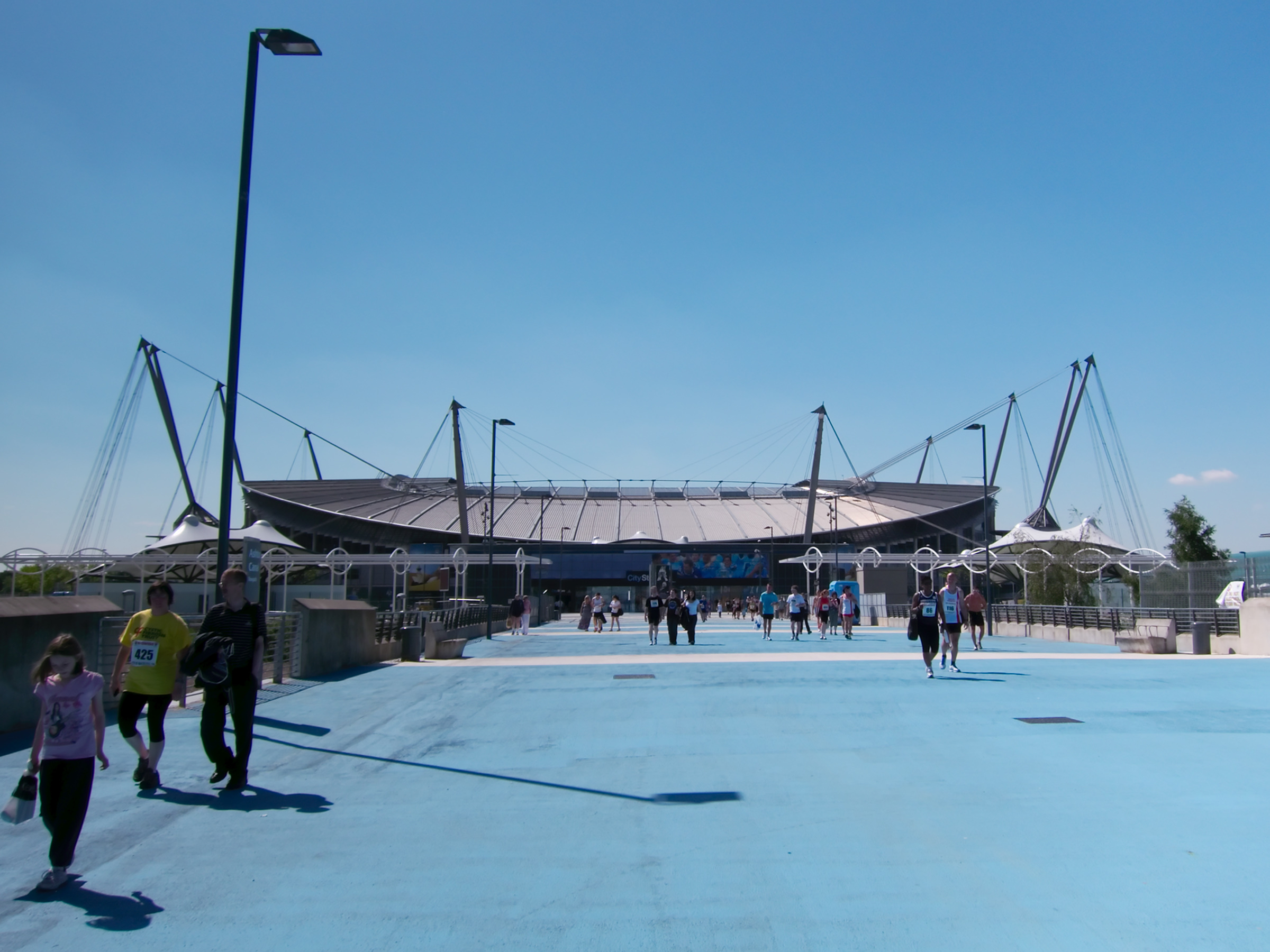 The strange blue bridge from the car parks to Sportcity and the Man City stadium. In case you were wondering, I was visiting for the City of Manchester 10K